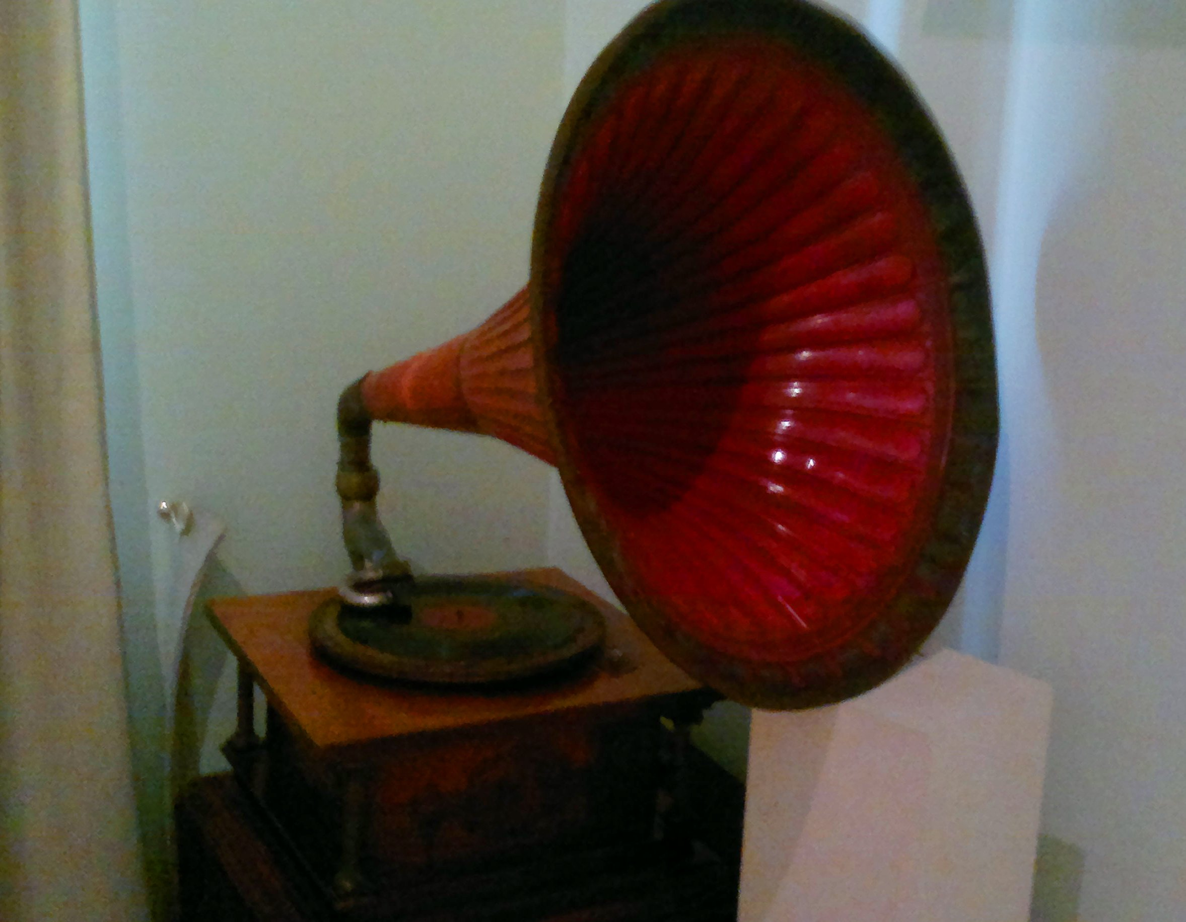 Phonograph of a famous Azerbaijani mugham singer Jabbar Garyagdioglu. Museum of History of Azerbaijan.